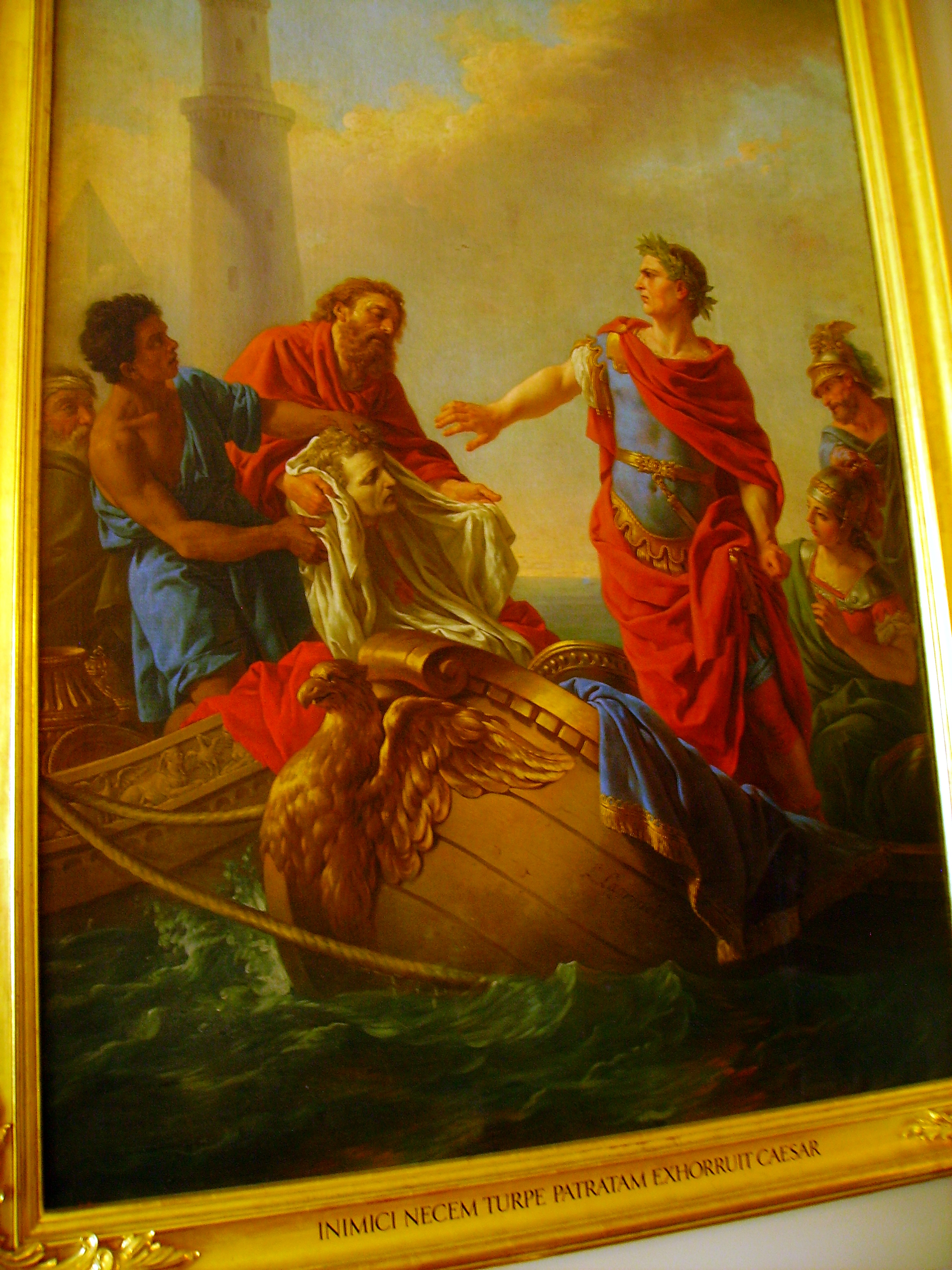 Caesar horrified to see Pompeius slaughtered, by Louis-François Lagrenee